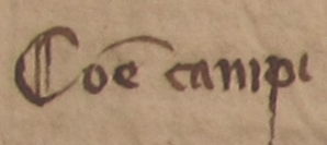 Campo (Isola d'Elba) - documento del 1260